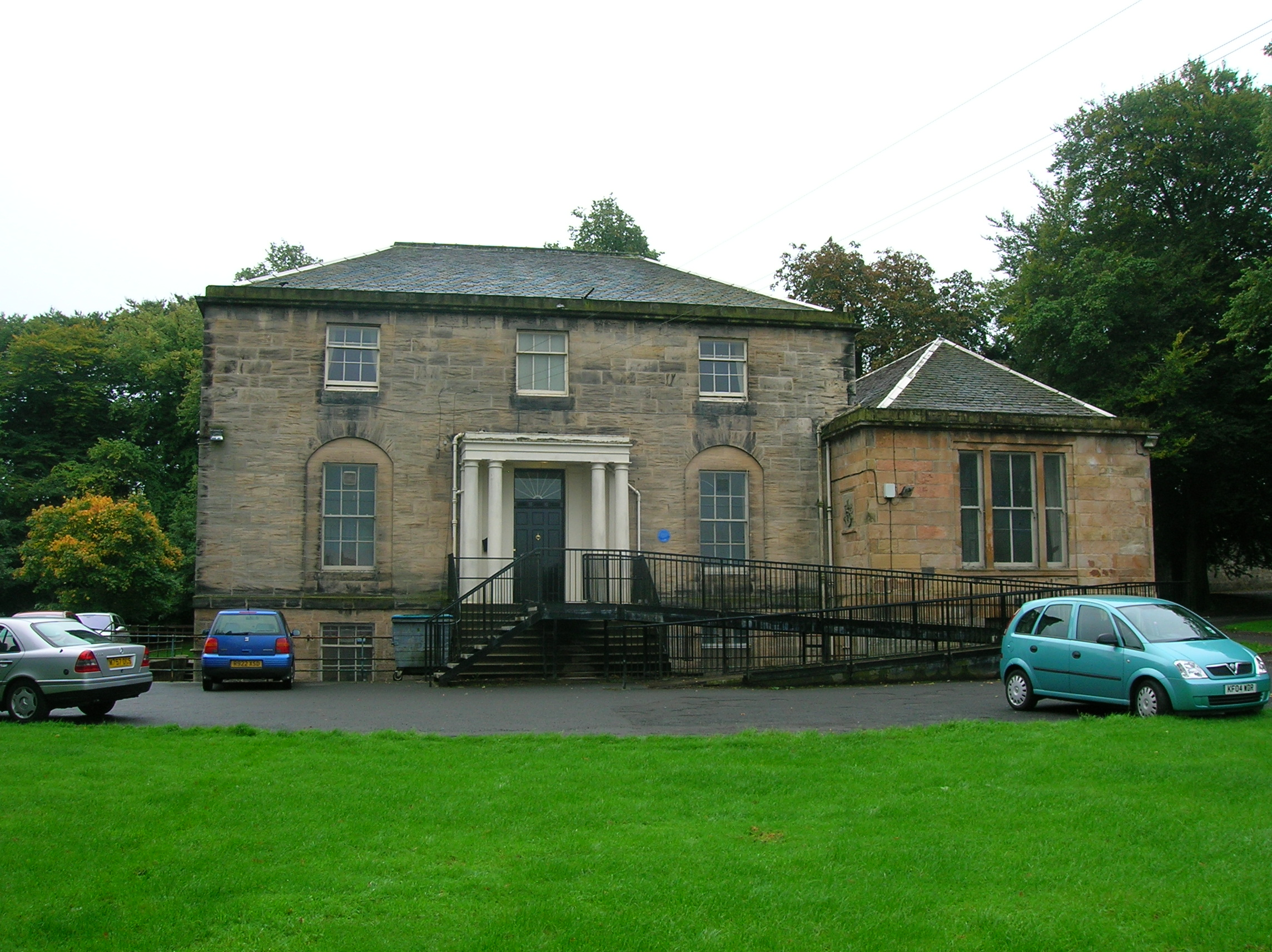 Arthurlie House, Arthurlie, Barrhead